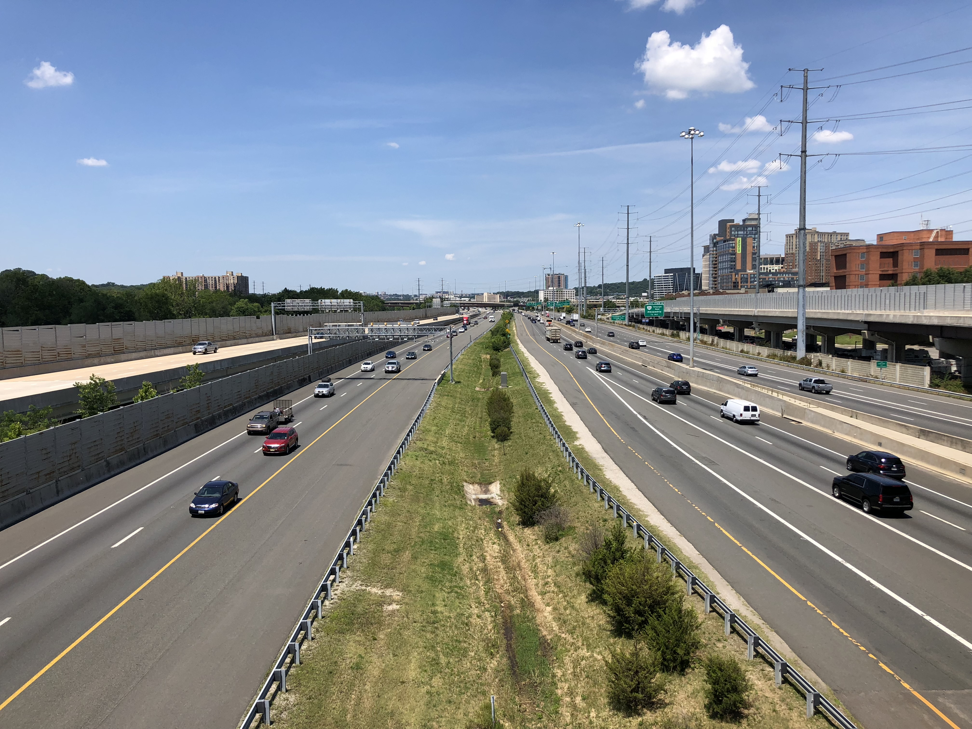 View south along Interstate 95 and west along Interstate 495 (Capital Beltway) from the overpass for the ramp connecting Mill Road to Interstate 95 northbound and Interstate 495 eastbound in Alexandria, Virginia